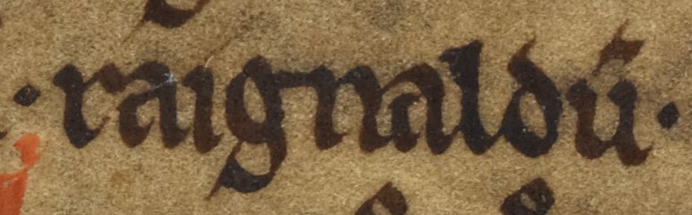 An excerpt from folio 35v of British Library MS Cotton Julius A VII (the Chronicle of Mann). The excerpt reads in Latin "Raignaldum". The man referred to is Ragnall mac Somairle (died between 1192–1227).